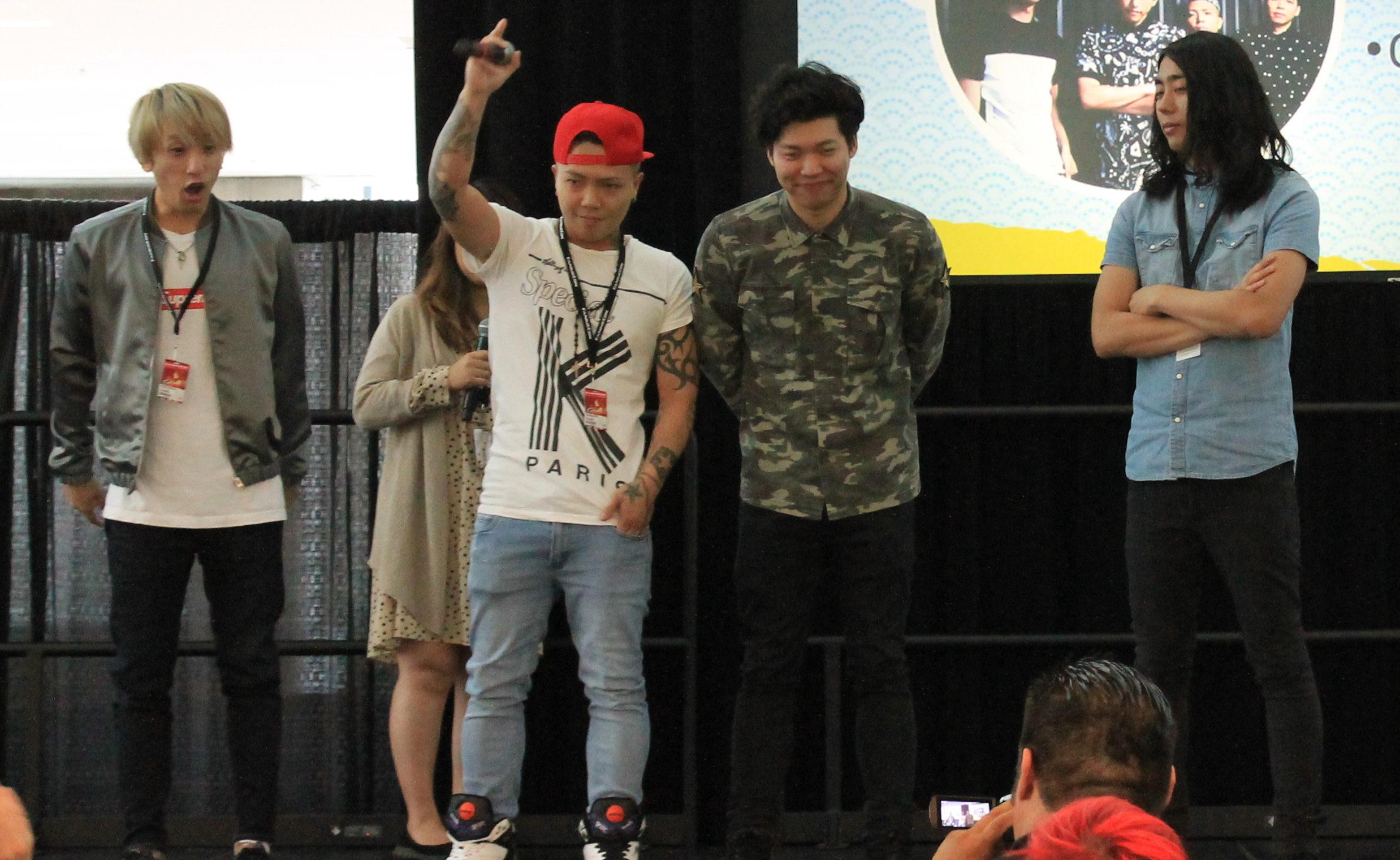 BACK-ON at Fanime 2015